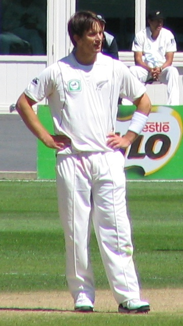 New Zealand fast bowler Shane Bond, during a test match vs Pakistan at the University Oval in Dunedin, New Zealand